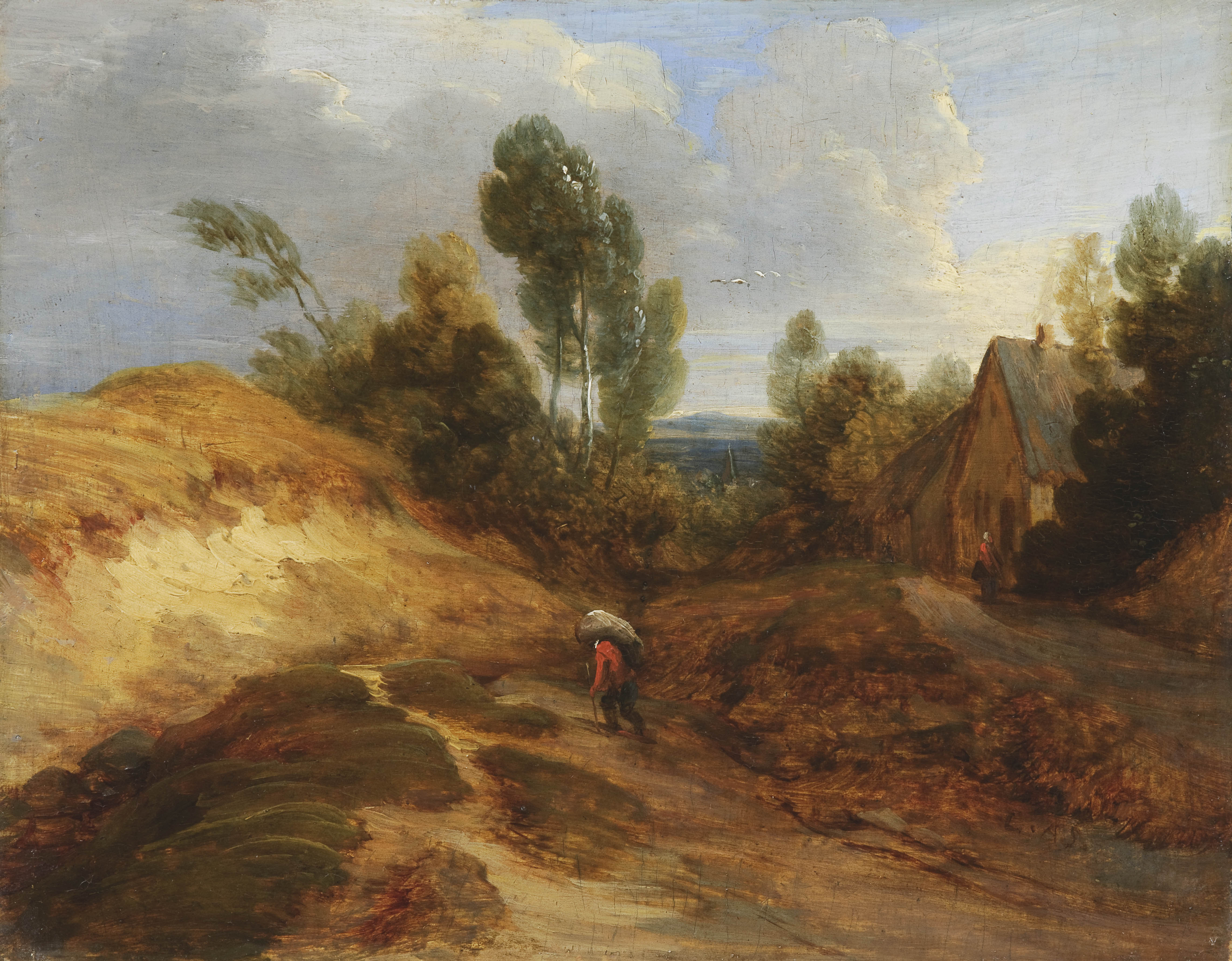 Lucas Achtschellinck, Dune landscape, oil on panel, 19.7 x 25 cm, Fondation Custodia